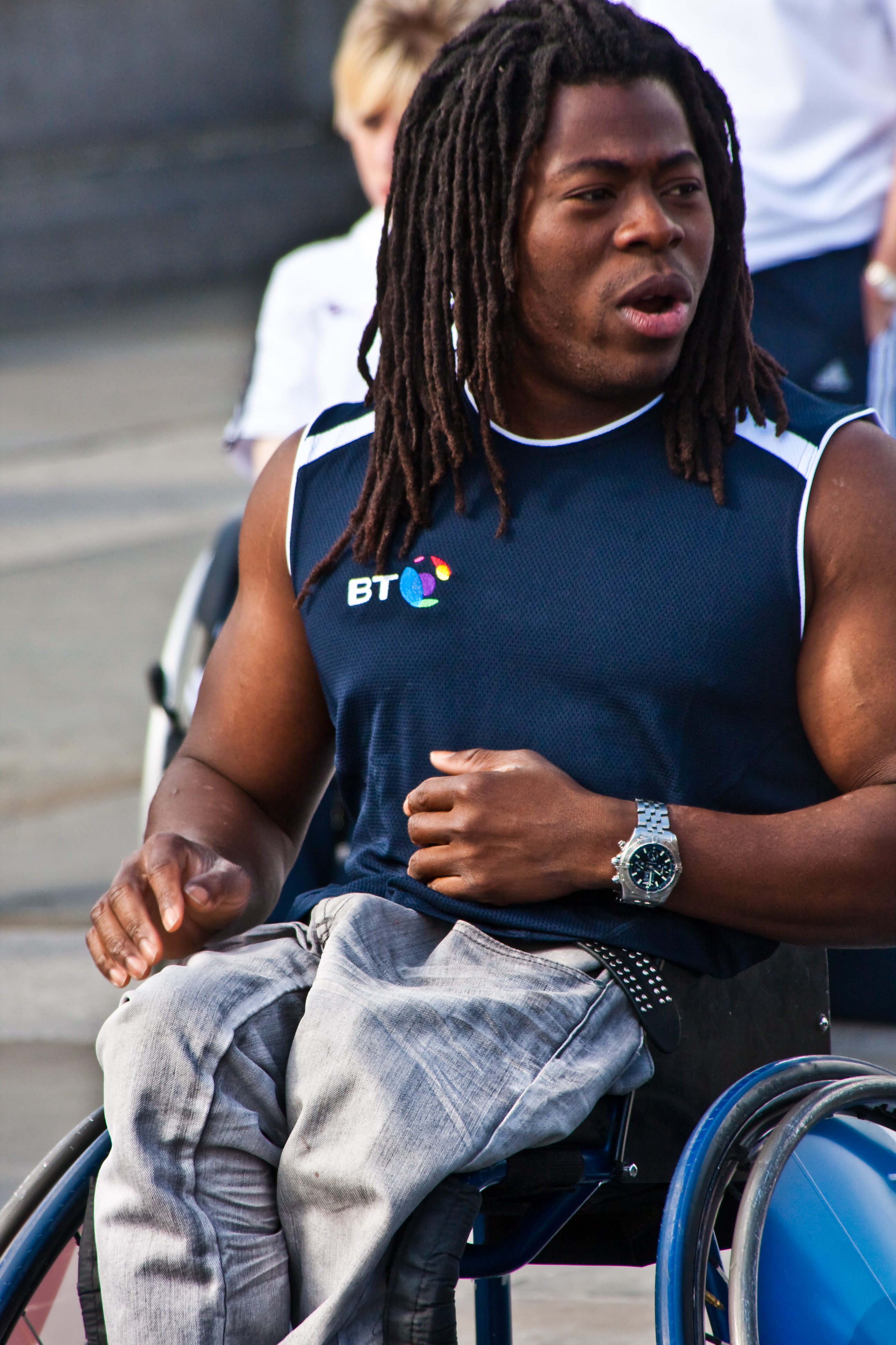 Ade Adepitan MBE, the well-known wheelchair basketball player.